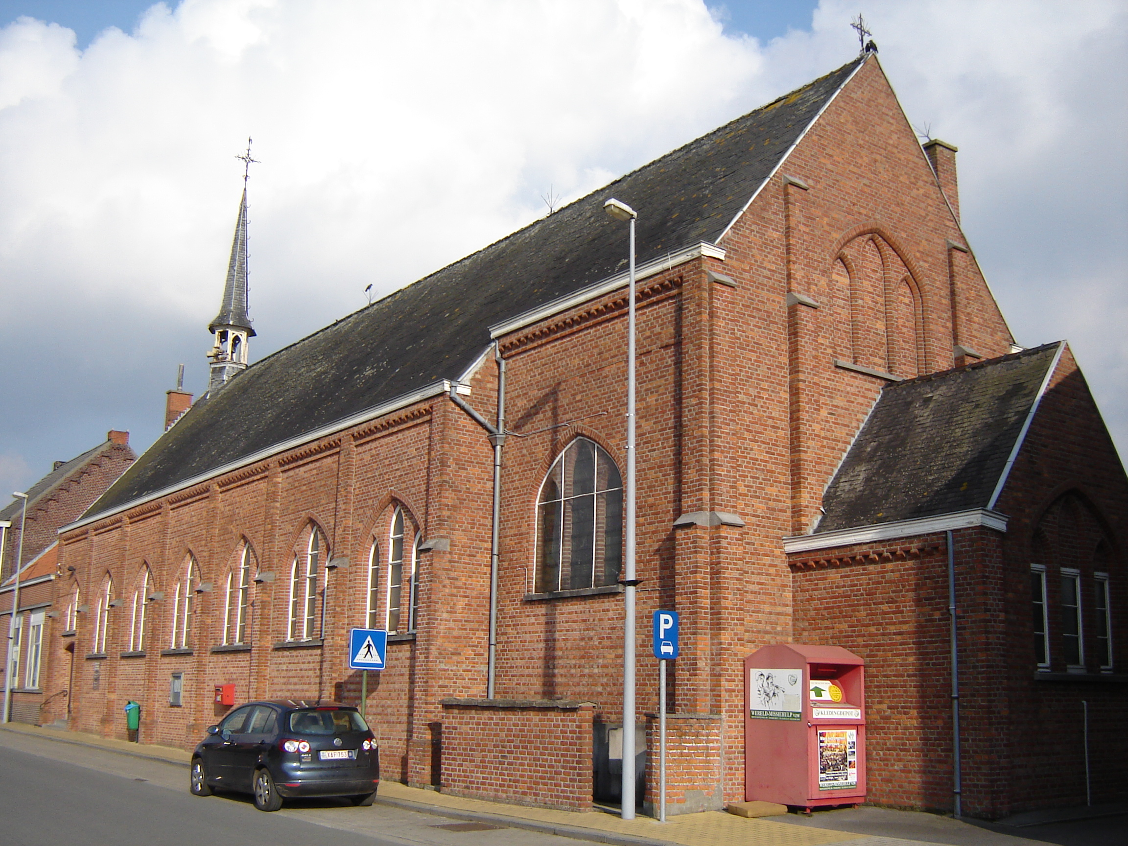 Church of the Exaltation of the Holy Cross in Kruiskerke. Kruiskerke, Ruiselede, West Flanders, Belgium